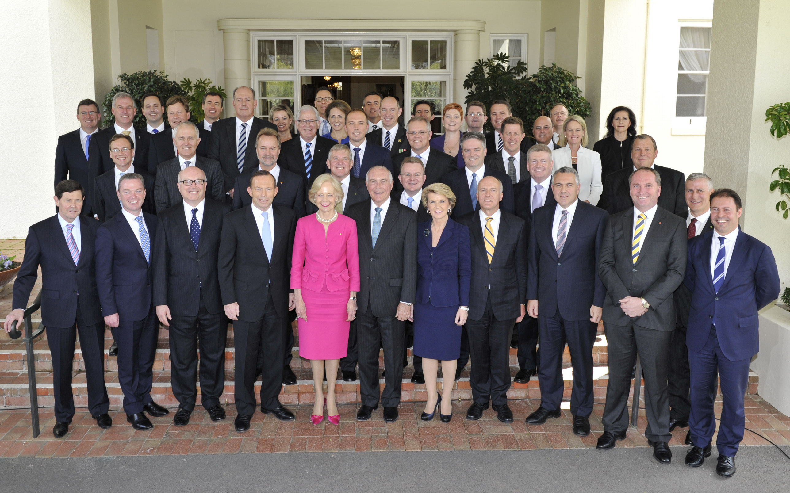 Quentin Bryce with the newly sworn in Abbott Ministry